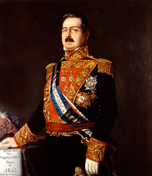 Portrait of the Admiral of the Spanish Navy Francisco Armero y Fernández Peñaranda (1804 - 1866)